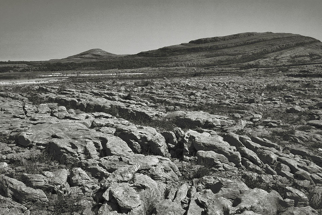 Mullaghmore (right), a 180m Carboniferous limestone hill in County Clare, Ireland.